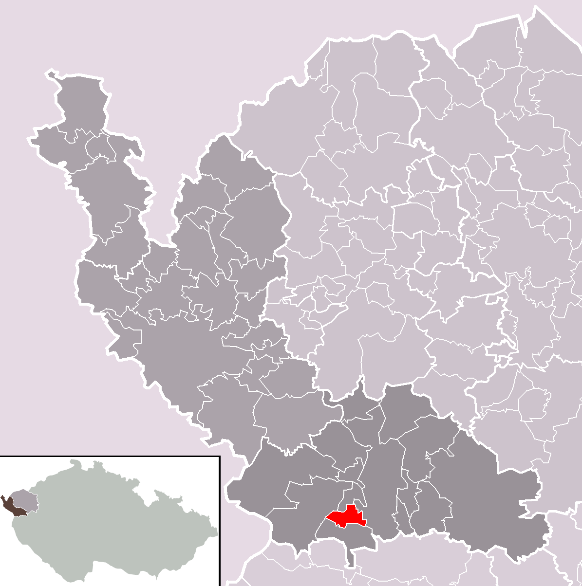 Location of Drmoul municipality within Cheb District and administrative area of Mariánské Lázně as a Municipality with Extended Competence.